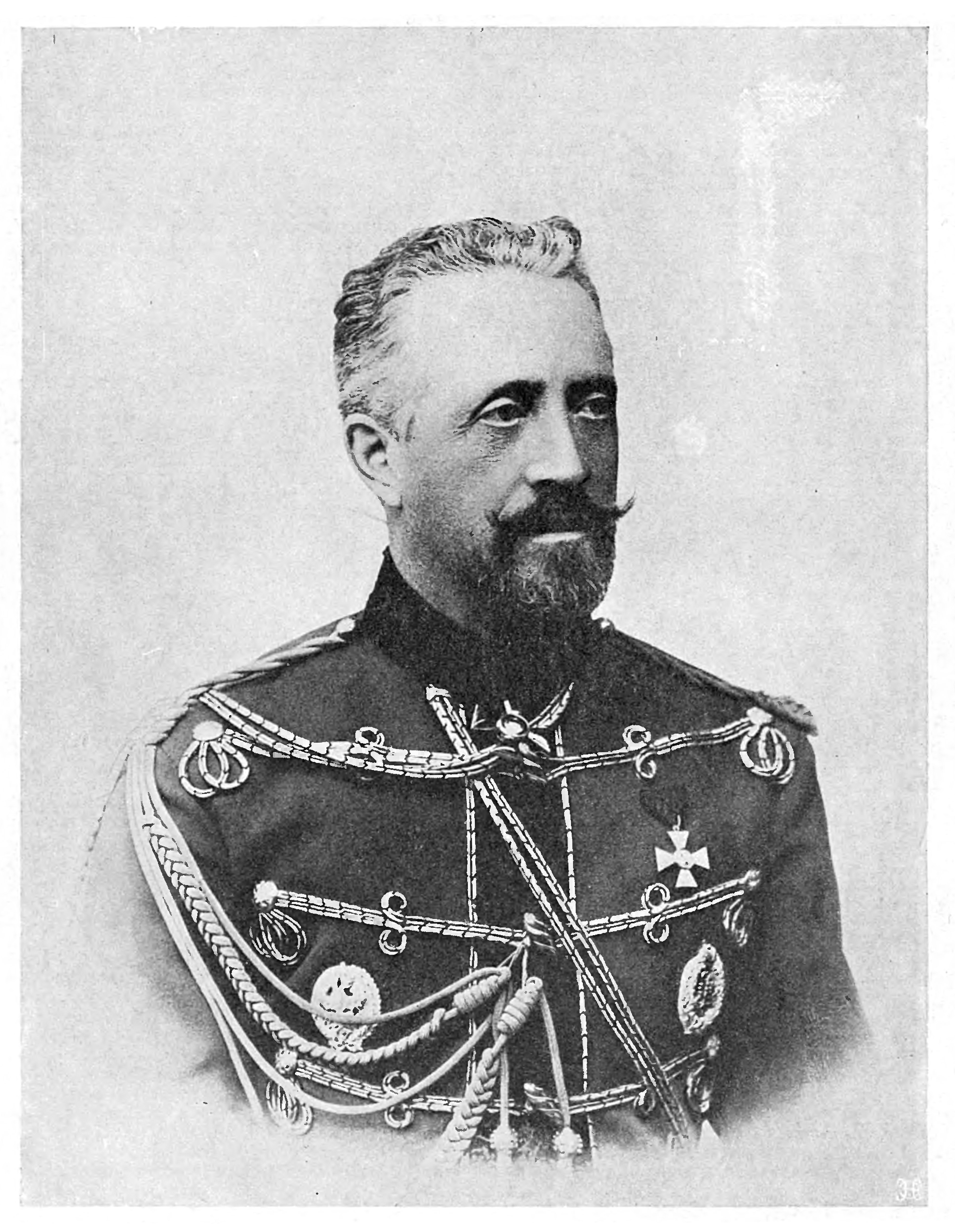 Grand Duke Nicholas - Project Gutenberg eText 16363 The Project Gutenberg EBook of The New York Times Current History of the European War, Vol 1, Issue 4, January 23, 1915, by Various